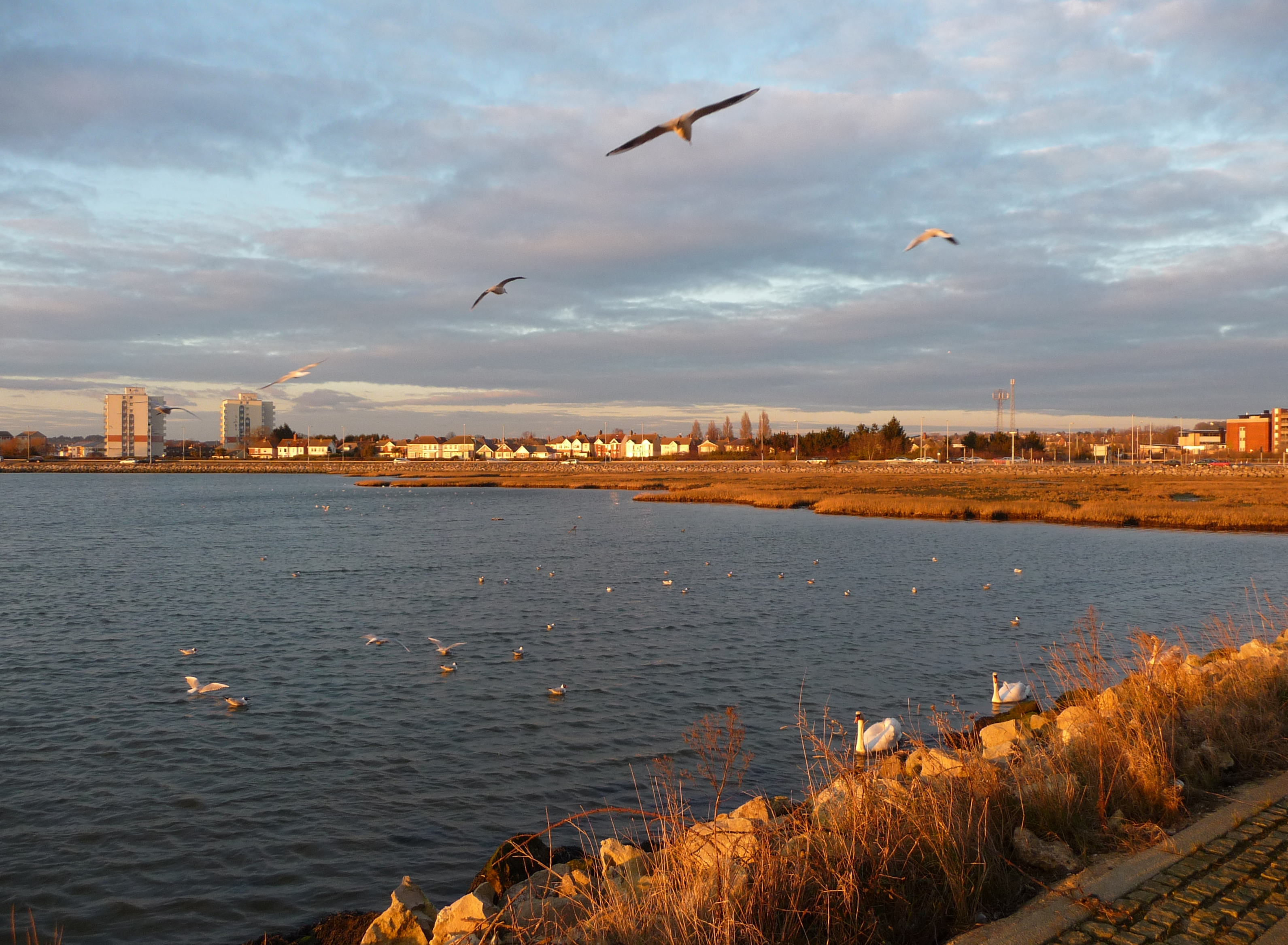 Poole : Holes Bay Birds come in to rest at Holes Bay as the sun is setting.